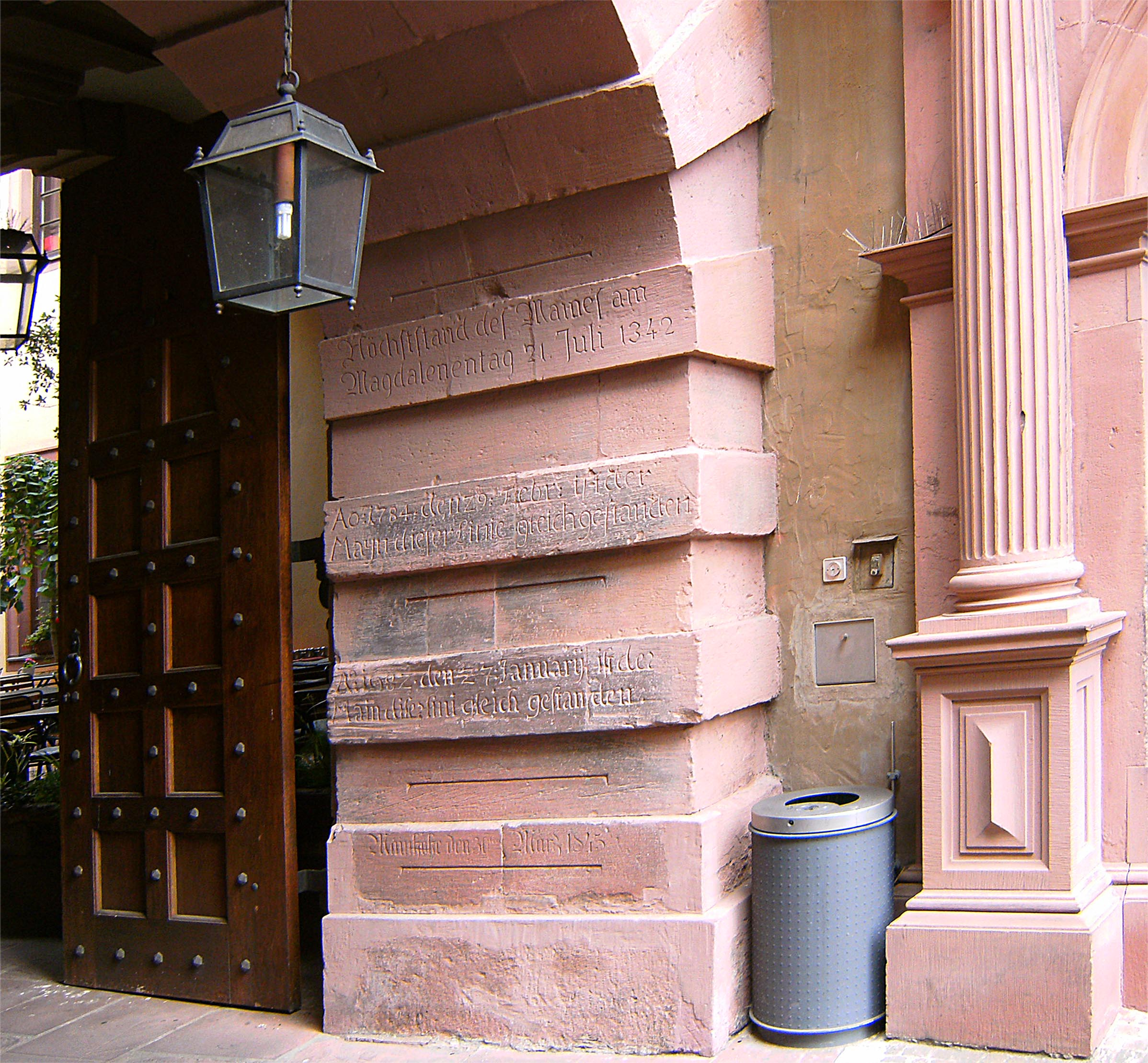 Flood level signs at the entrance to Grafeneckart, the townhall of Würzburg, Germany.